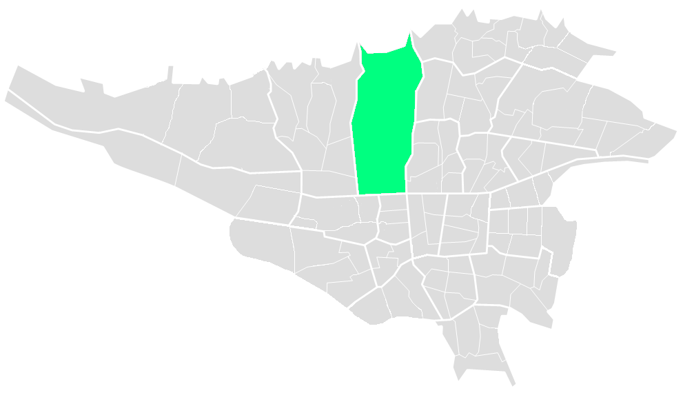 Region 2 of Tehran